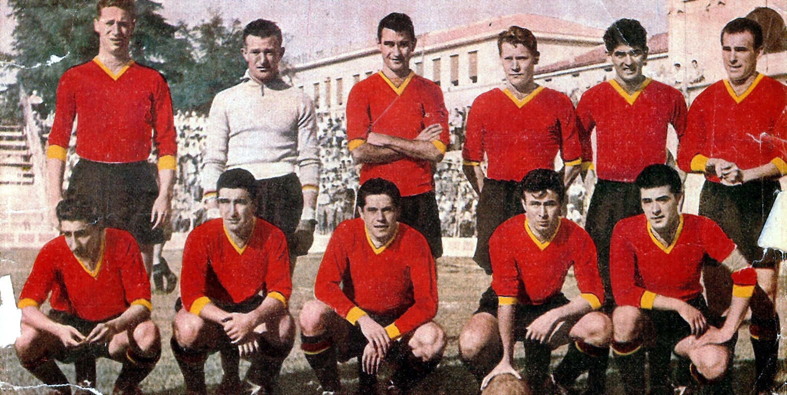 A line-up of Associazione Sportiva Roma in the 1953–54 season.